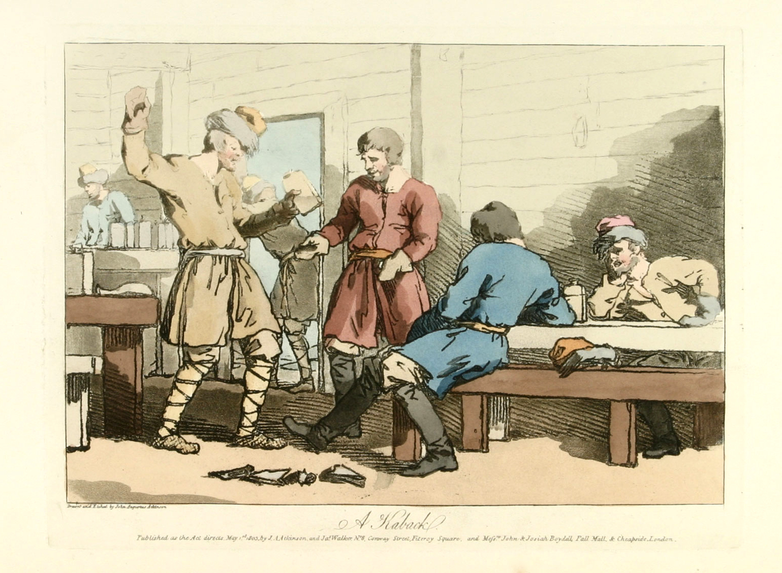 J. A. Atkinson. Kabaret russe. 1804